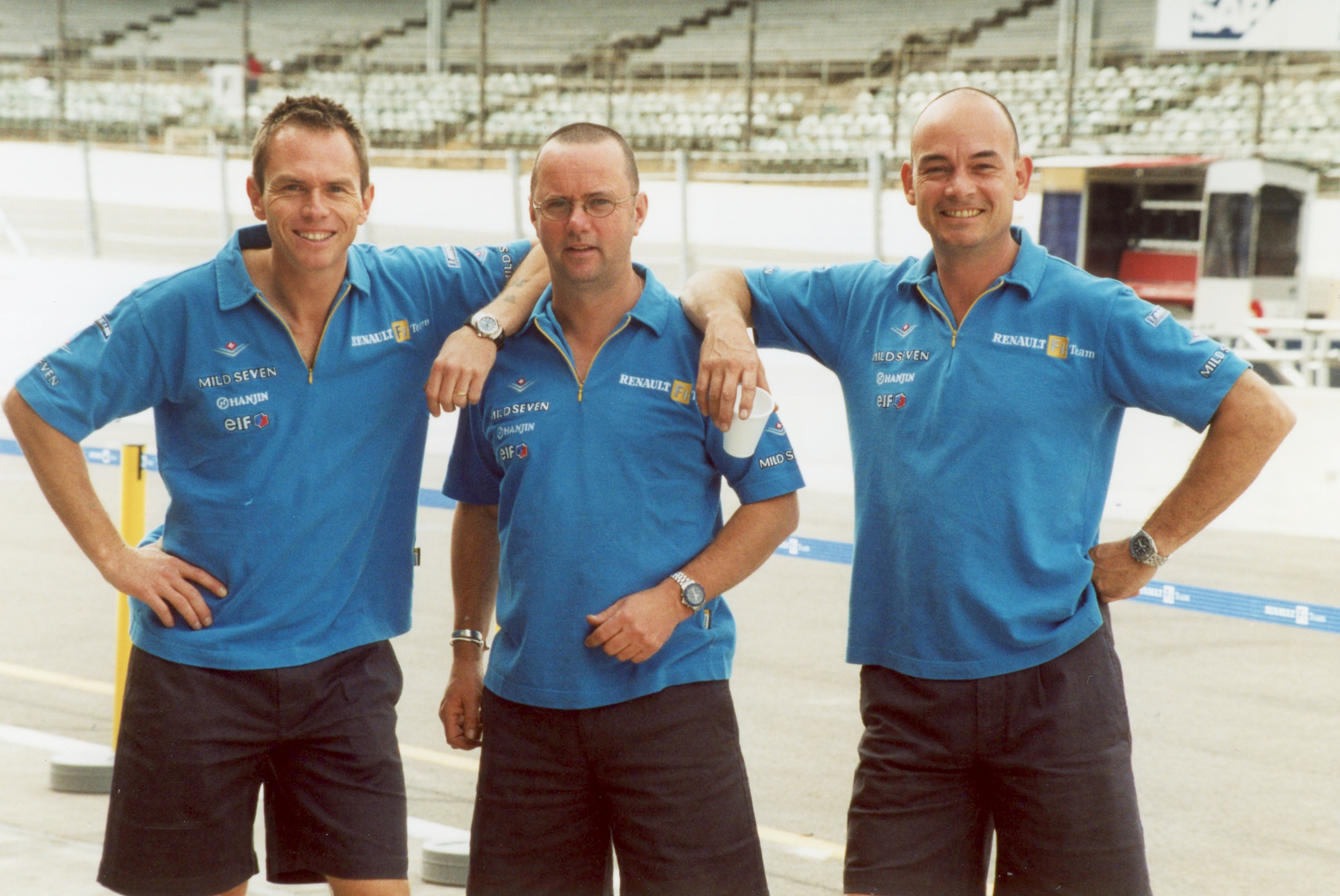 Renault Formula One team, Indianapolis, 2002